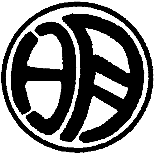 Kanji 明 (radical 72 日 + radical 74 月, ming, U+660E: bright, light, brilliant, clear) arranged in a circular shape